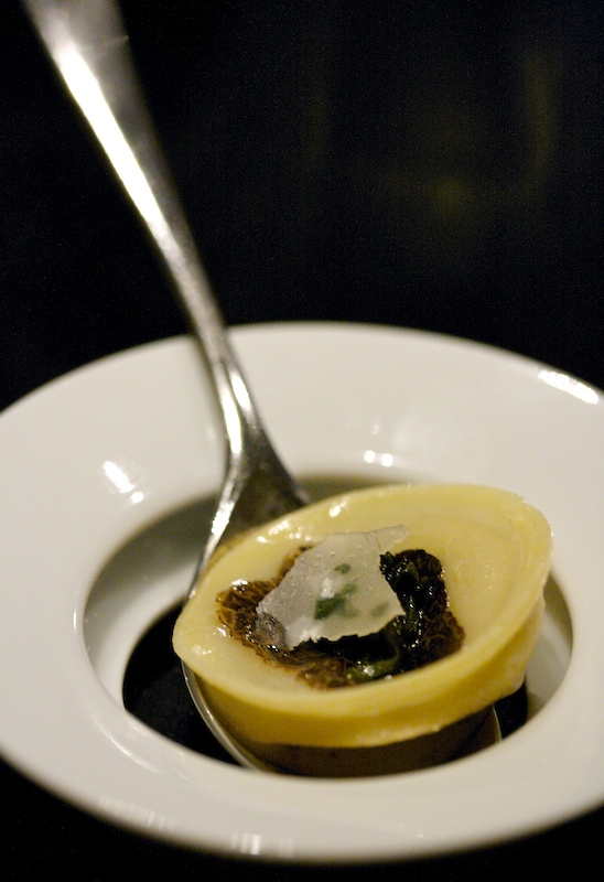 TIME 8:08 BLACK TRUFFLE explosion, romaine, parmesan Another exploding dish: a single raviolo (heh) on a spoon, filled with truffle broth and topped with a slice of truffle, parmesan cheese, and a braised baby romaine leaf, resting on a small bottomless dish. Sue Wen: This was definitely one of my favorites of the night. After putting the raviolo in my mouth, I was hit with amazing pure concentrated truffle flavor in the broth; this was similar in concept to the Chinese shao long bao and very, very impressive. Kevin: My favorite course. Matt: Smoooth. I might have preferred a little something to offset the full-on truffle flavor, but then again it was pretty damn good.